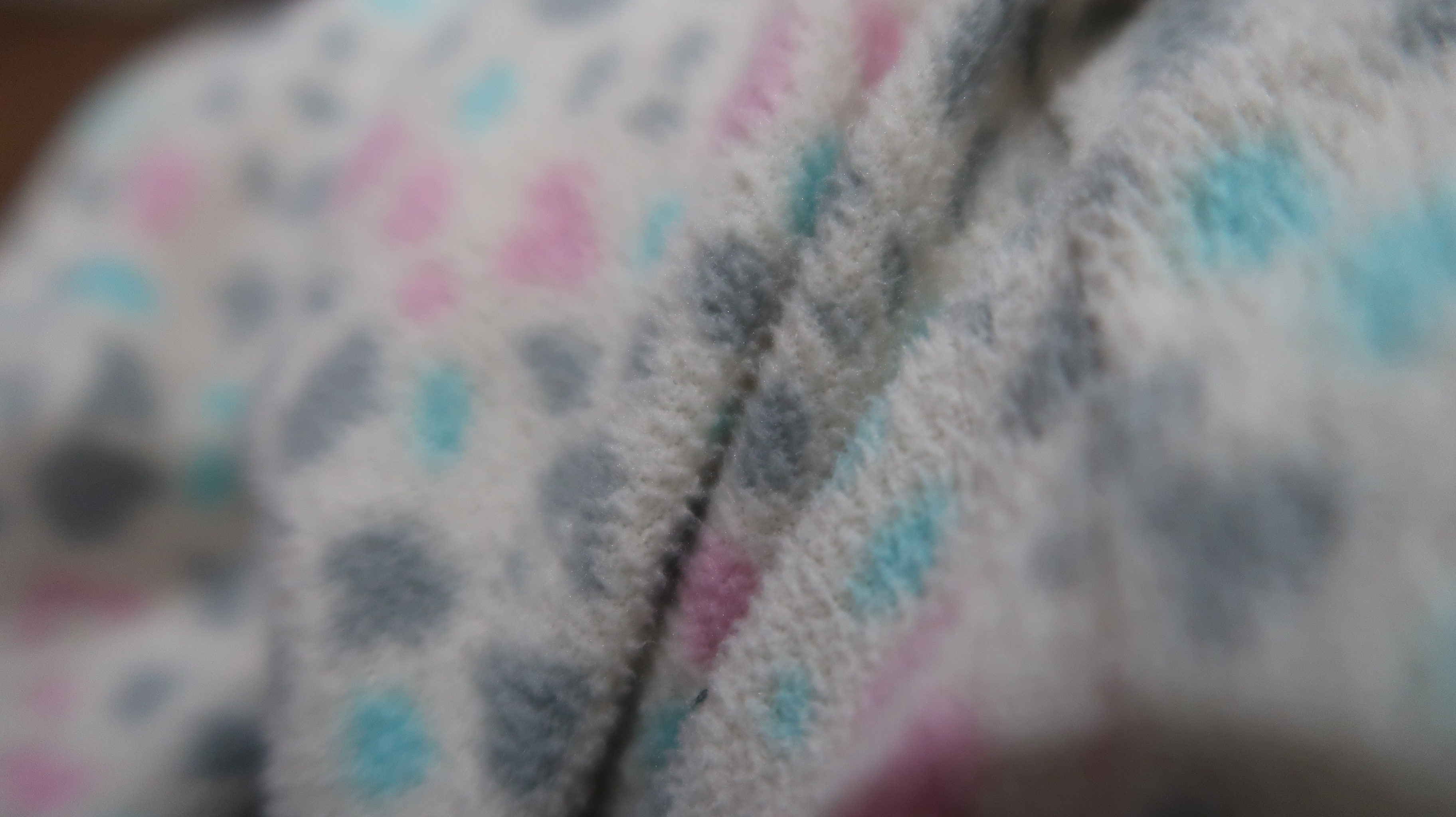 Textured